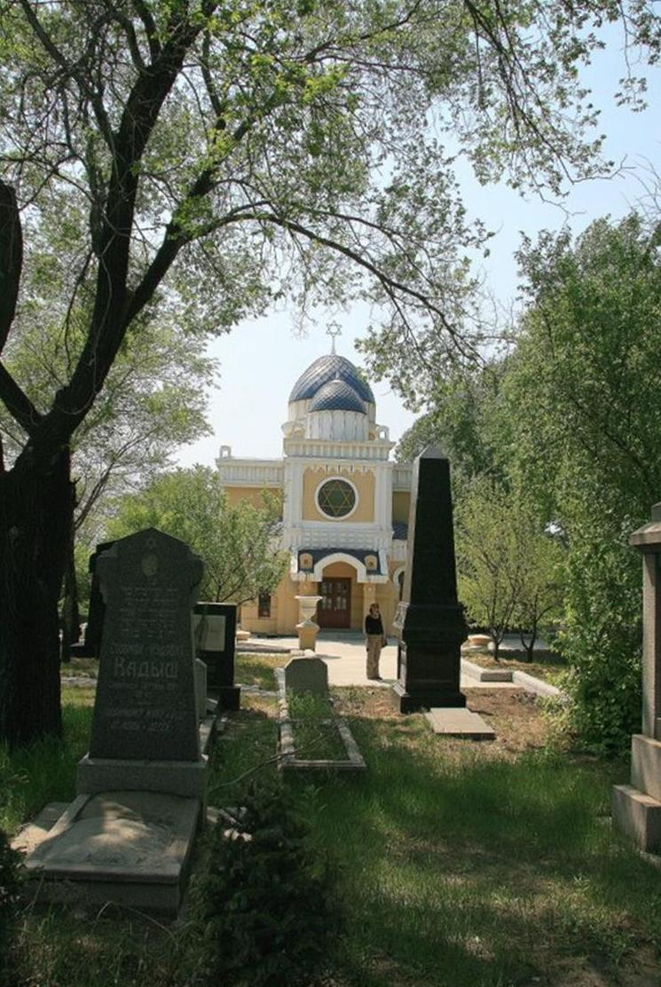 Huang Shan Jewish Cemetery, in Harbin, China